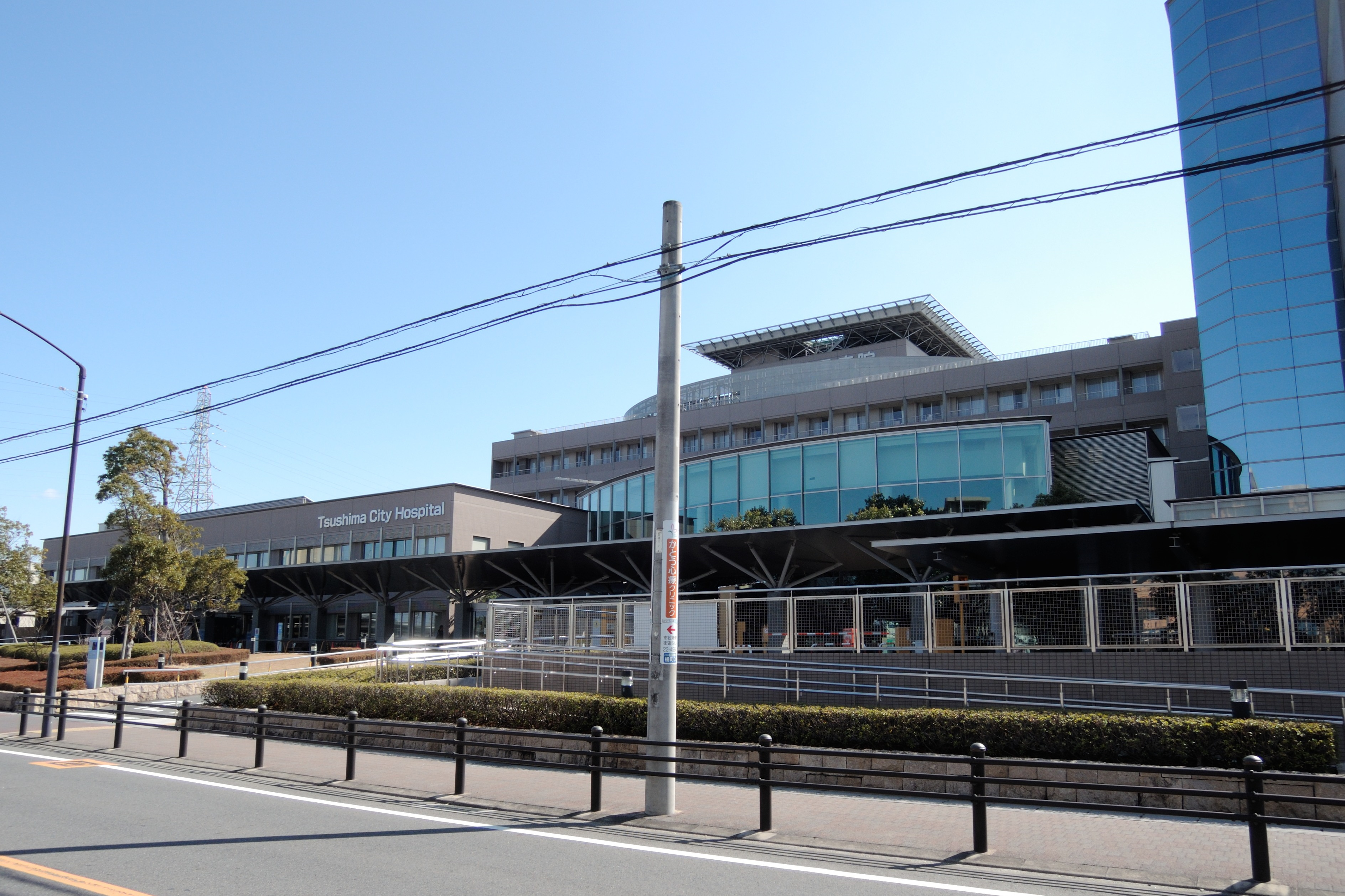 Tsushima city Hospital,Aichi prefecture,Japan